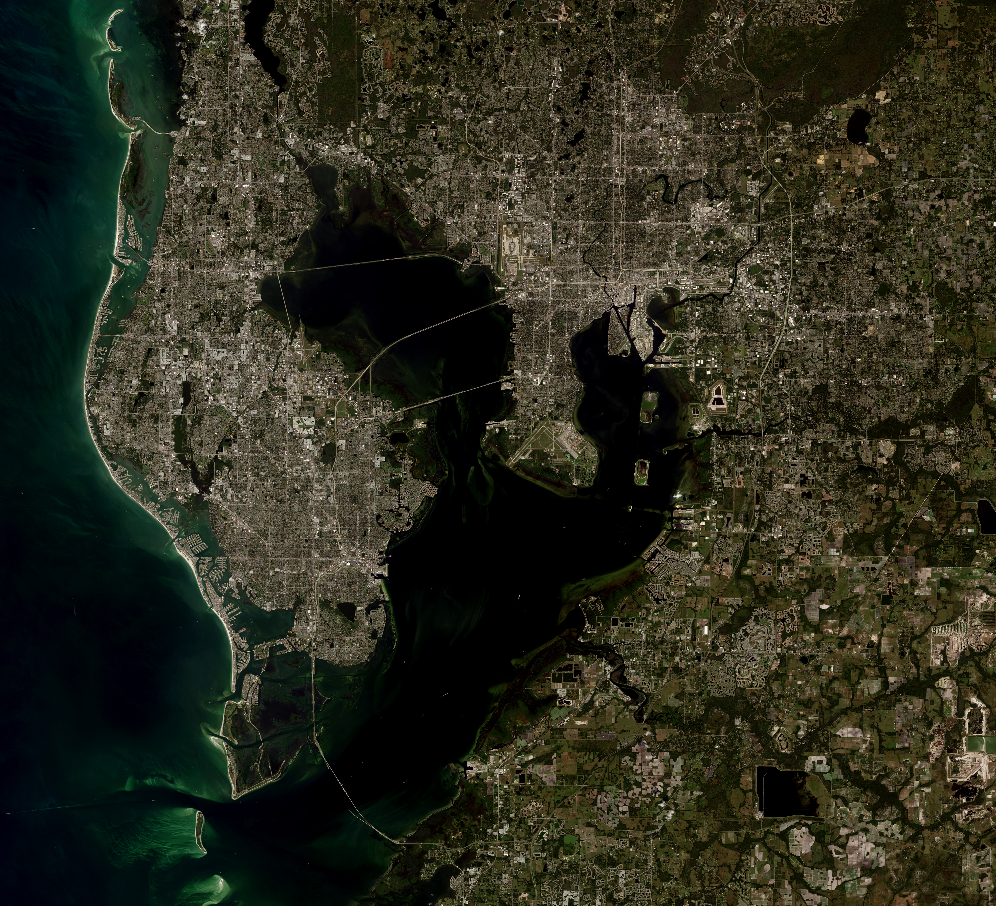 Landsat 8 image of the Tampa Bay area. Landsat data retrieved February 10, 2016 for the November 3, 2015 imagery. Landsat data processed to make color image February 10, 2016